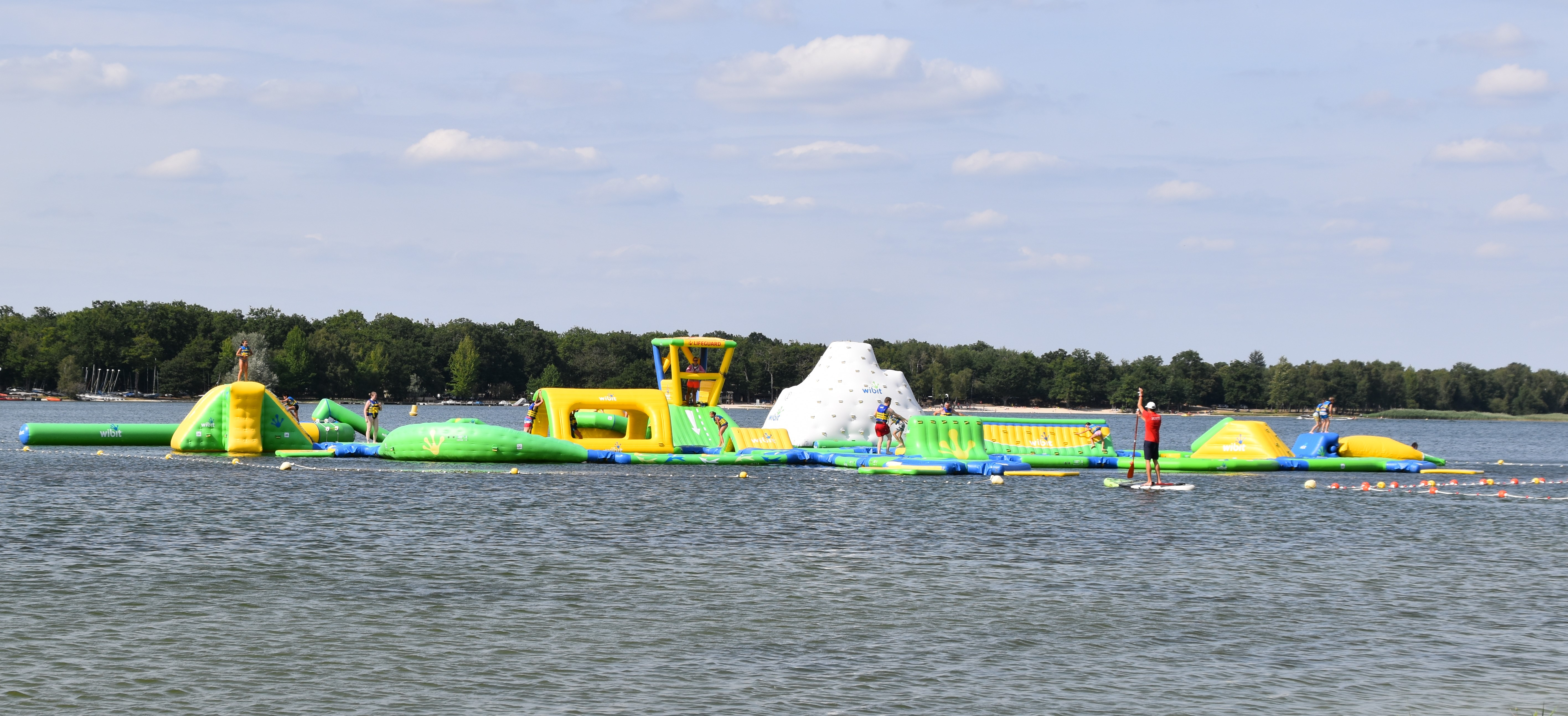 Inflatable Water Park, in France